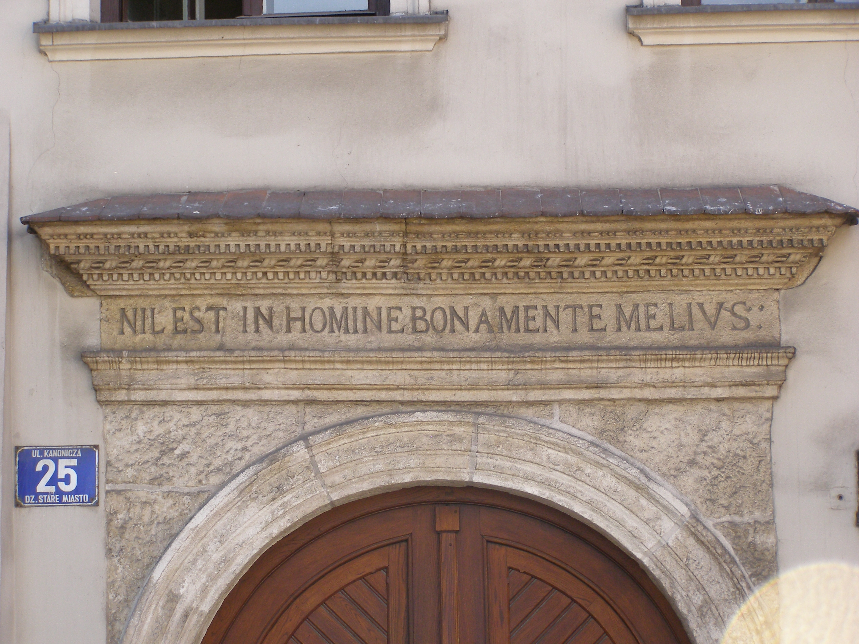 Kraków - a detail of the portal of the Długosz House